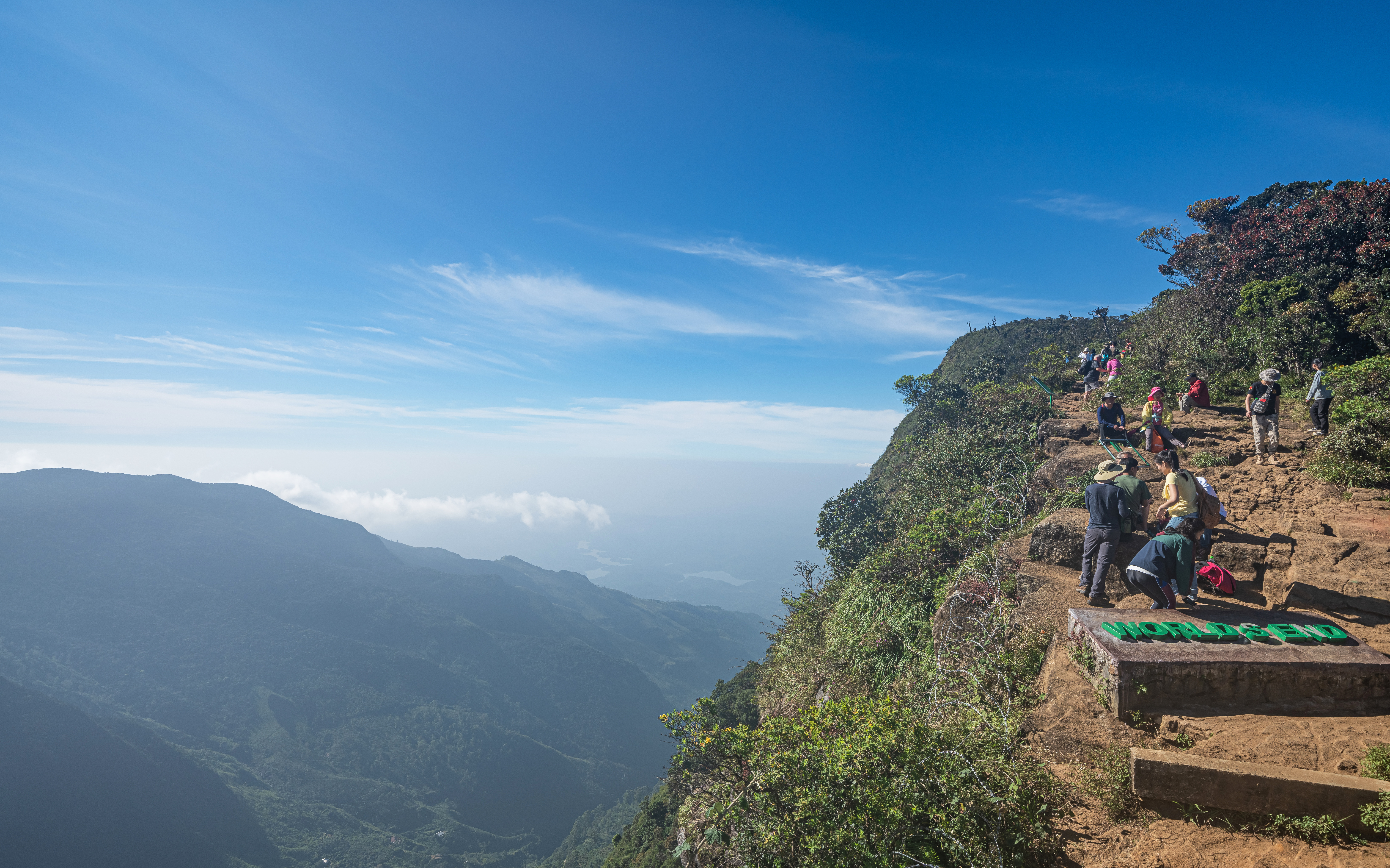 Scenic viewpoint called «World's End» in the Horton Plains National Park, Sri Lanka